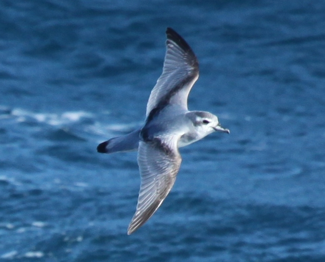 An Antarctic Prion flying over the South Atlantic Ocean between the Falkland Islands and South Georgia.